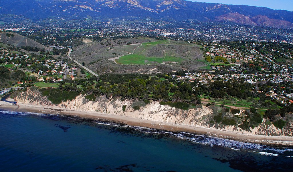 Douglas Family Preserve, Santa Barbara, CA. Grassy hillside beyond is in Ellings Park, Arroyo Burro at left edge, downtown Santa Barbara in distance, upper right edge with Tea Fire burn area hillside beyond at the base of the Santa Ynez Mountains.